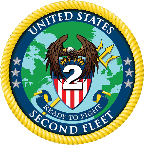 The official crest of the Commander, United States 2nd Fleet (C2F). C2F was established on 24 August 2018 and exercises operational and administrative authorities over assigned ships, aircraft and landing forces on the U.S. East Coast and northern Atlantic Ocean. Additionally, it plans and conducts maritime, joint and combined operations, and trains, recommends certification, and provides maritime forces to respond to global contingencies.